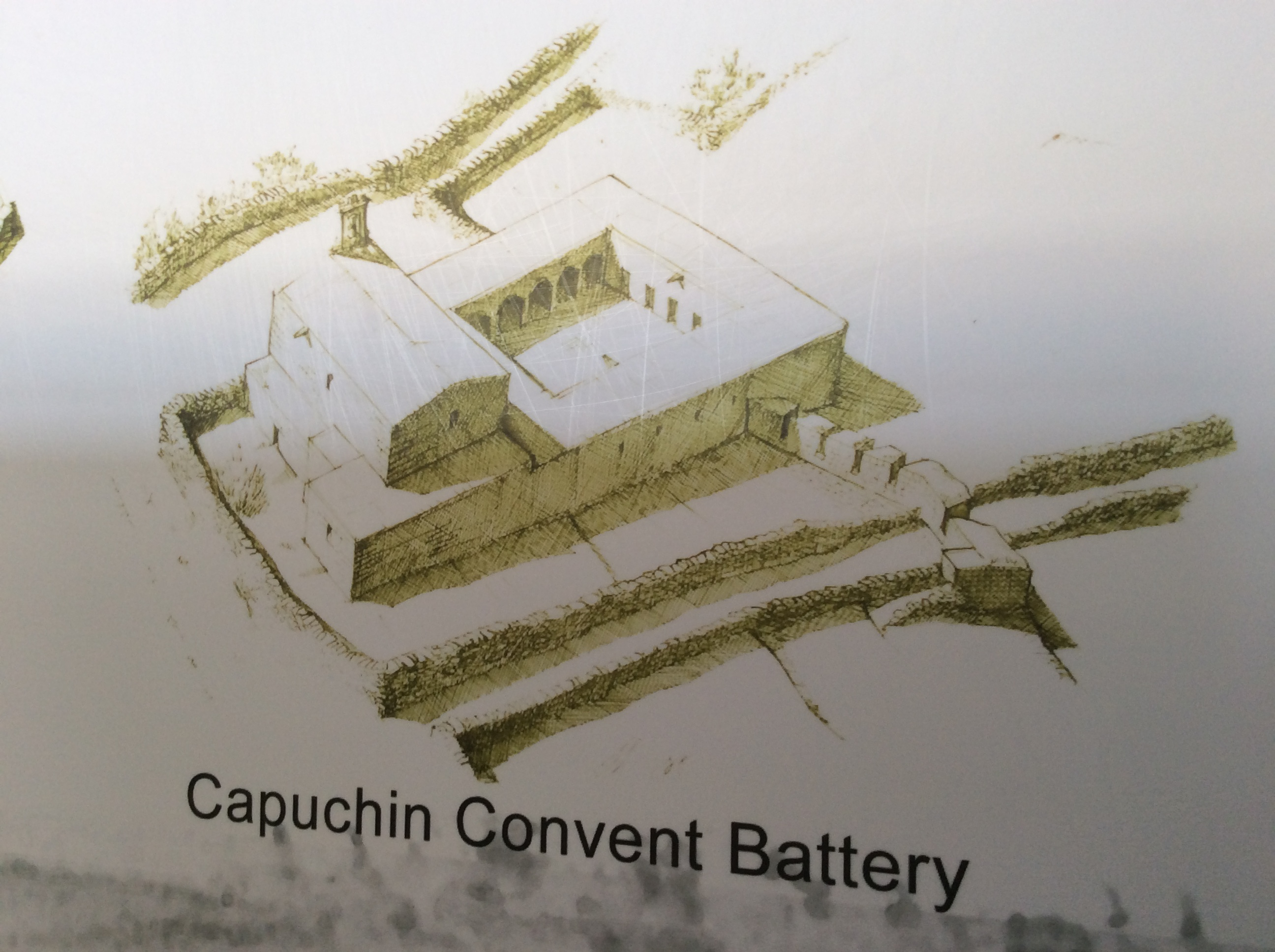 Valletta